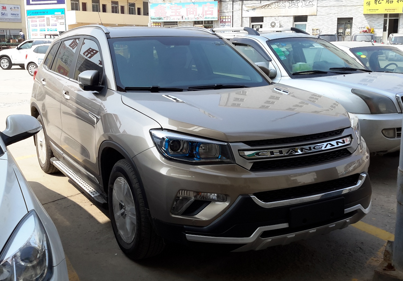 Chang'an CS75 photographed in Xi'an, Shaanxi province, China.